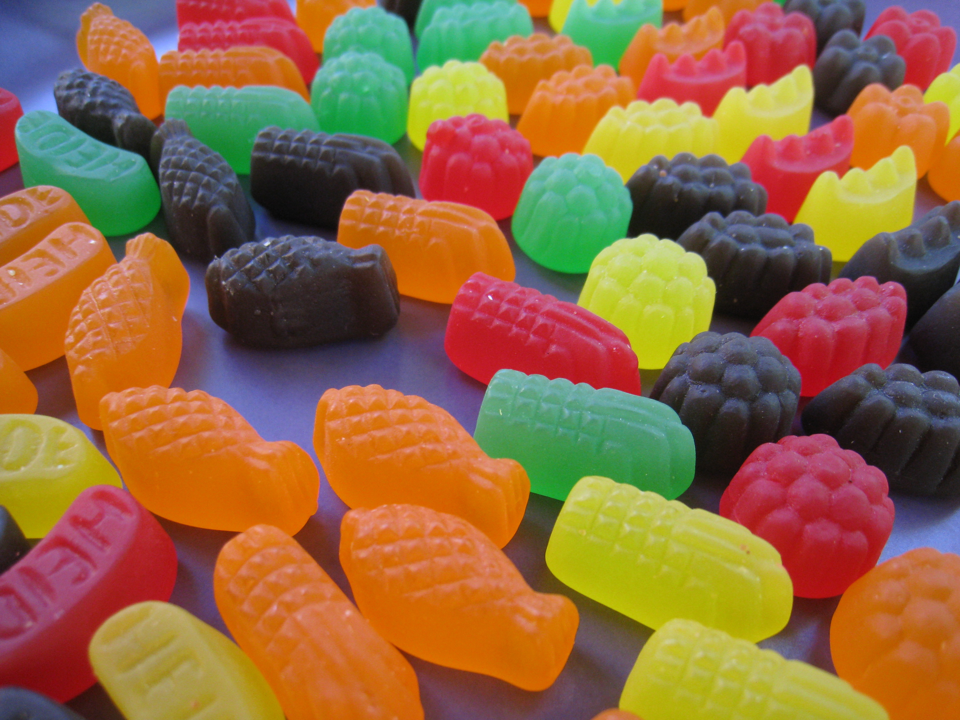 Mixed color and shape Jujyfruit candy on a plate, sorted by shape.